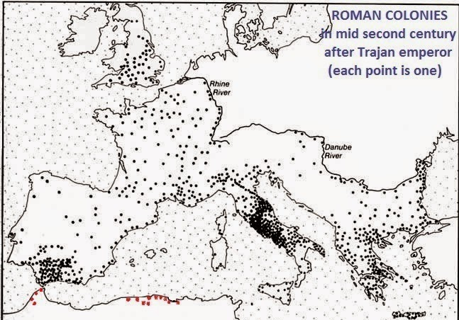 Map of roman coloniae during the second century. I have pinpointed in red those created by Augustus in roman Africa. Added data with my software.